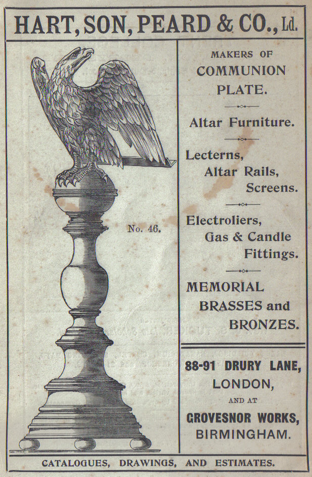 From the Illustrated Guide to the Church Congress of 1897. Hart, Son, Peard & Co. Makers of Communion Plate, Altar furniture, Lecterns, Altar Rails, Screens, Electroliers, Gas and Candle fittings, Memorial Brasses and Bronzes. 88-91 Drury Lane, London and Grovesnor Works, Birmingham